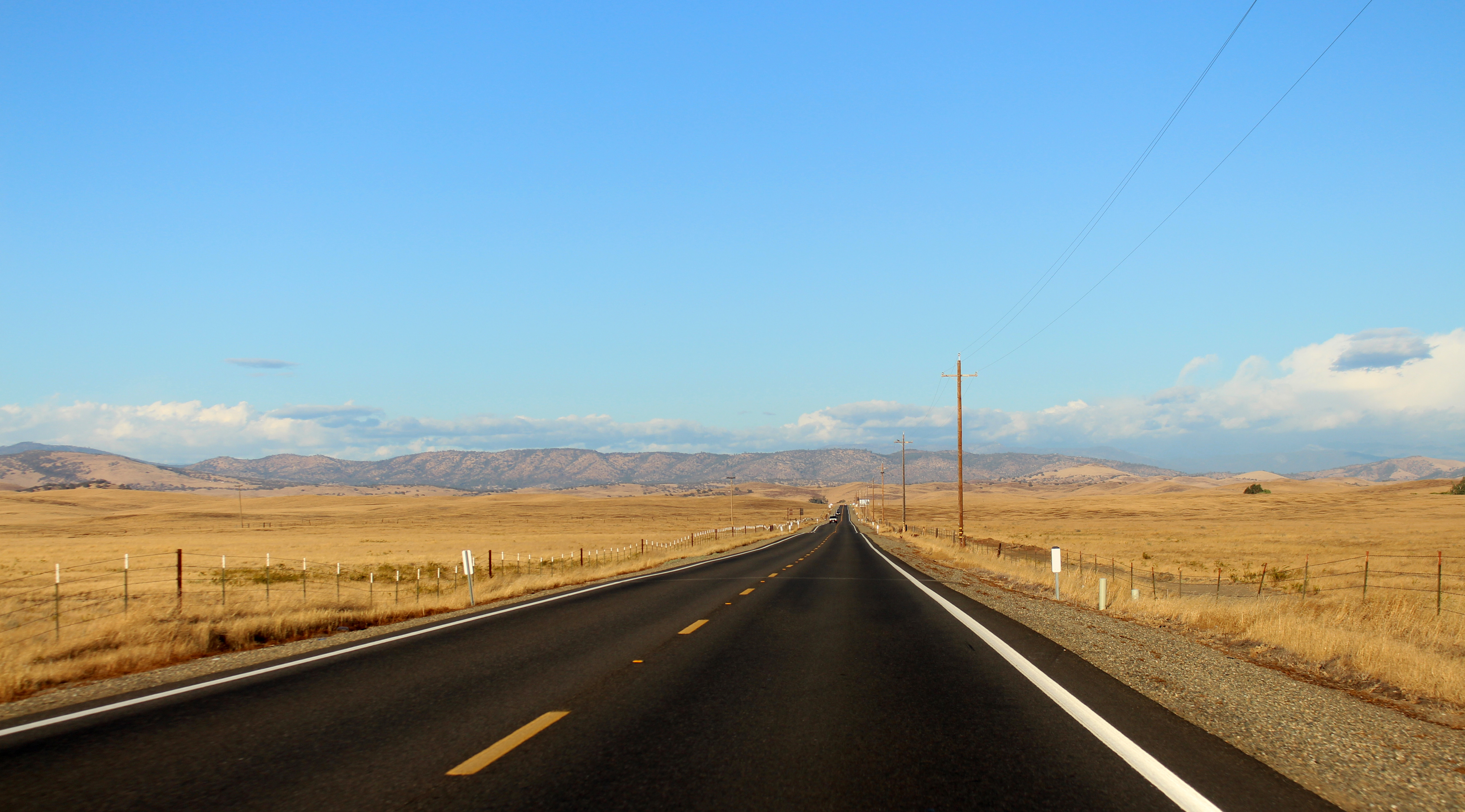 California State Route 140 eastbound just east of Merced, California. Photographed by user Coolcaesar on October 6, 2018.